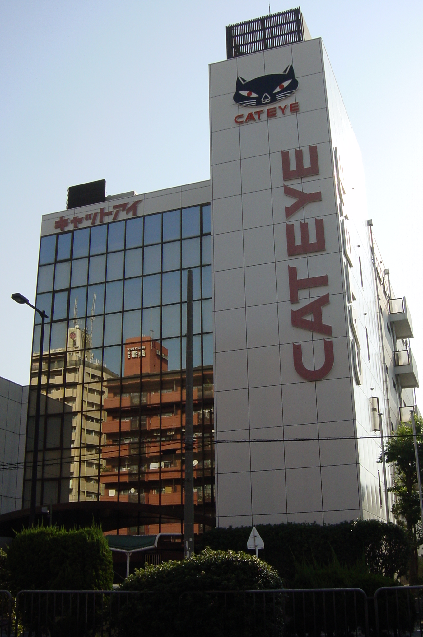 Kuwadu cat eye